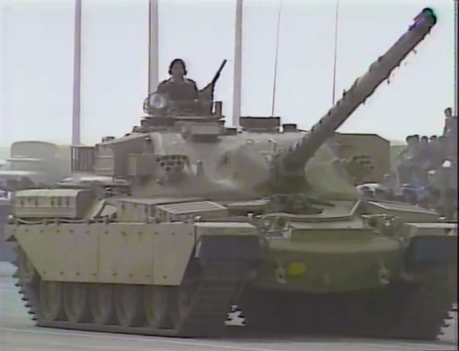 screenshot of kuwaiti chieftain tank in a military parade 1981